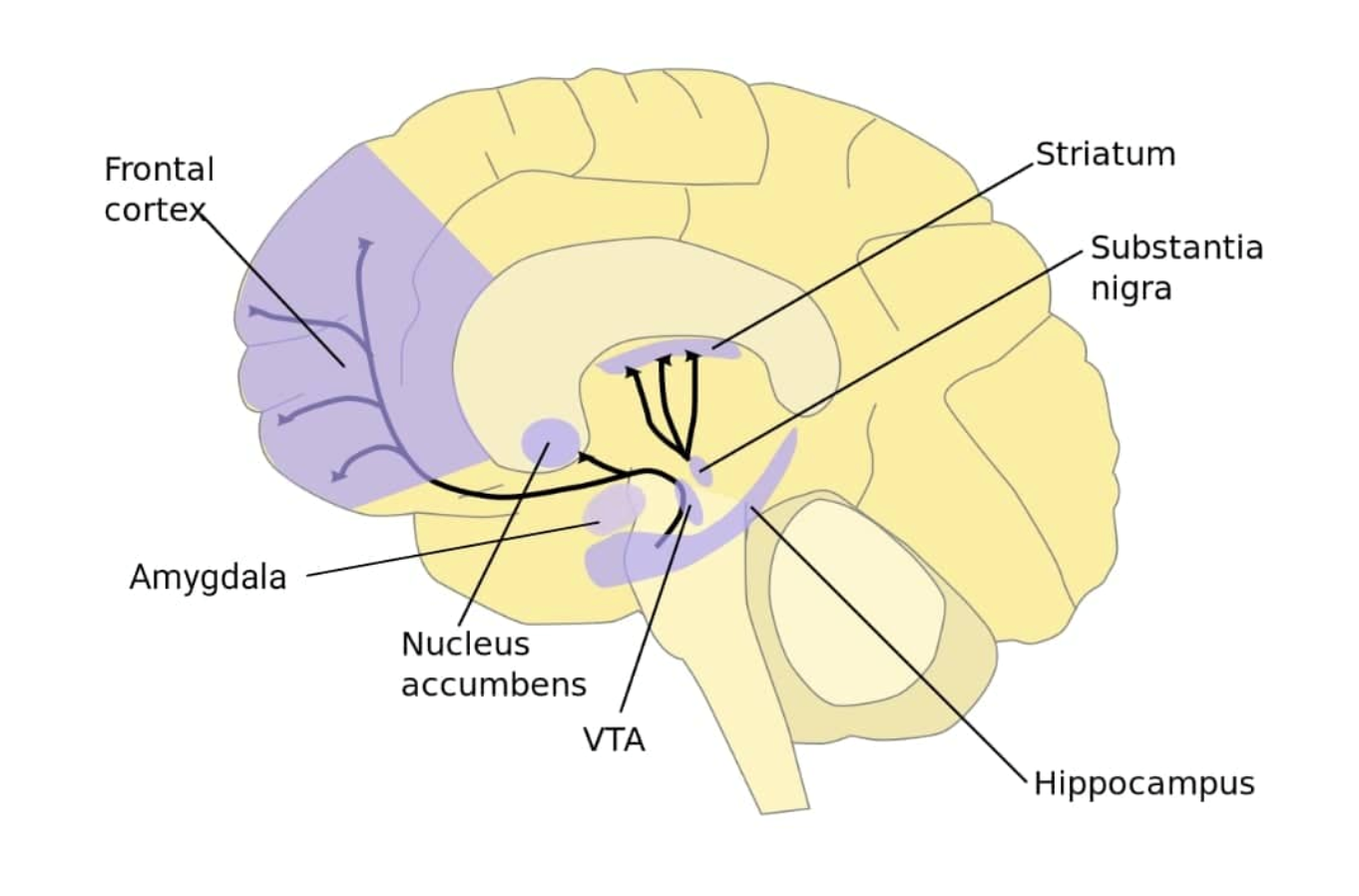 Important structures relatedto addiction